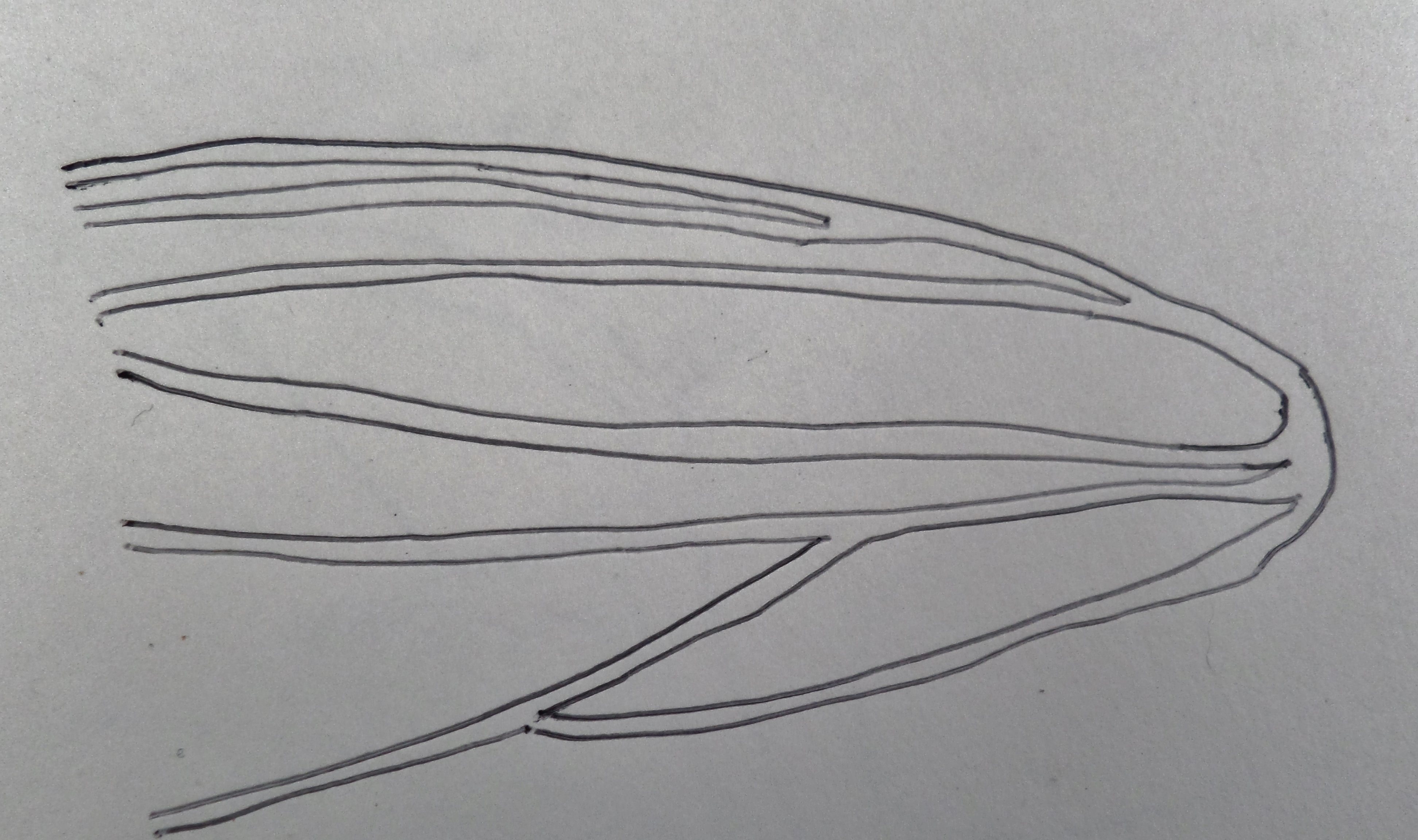 'Old Fortifications' at Nuthill, Falkland Estate, Fife, Scotland. These were part of a deer hay used to capture and manage deer.